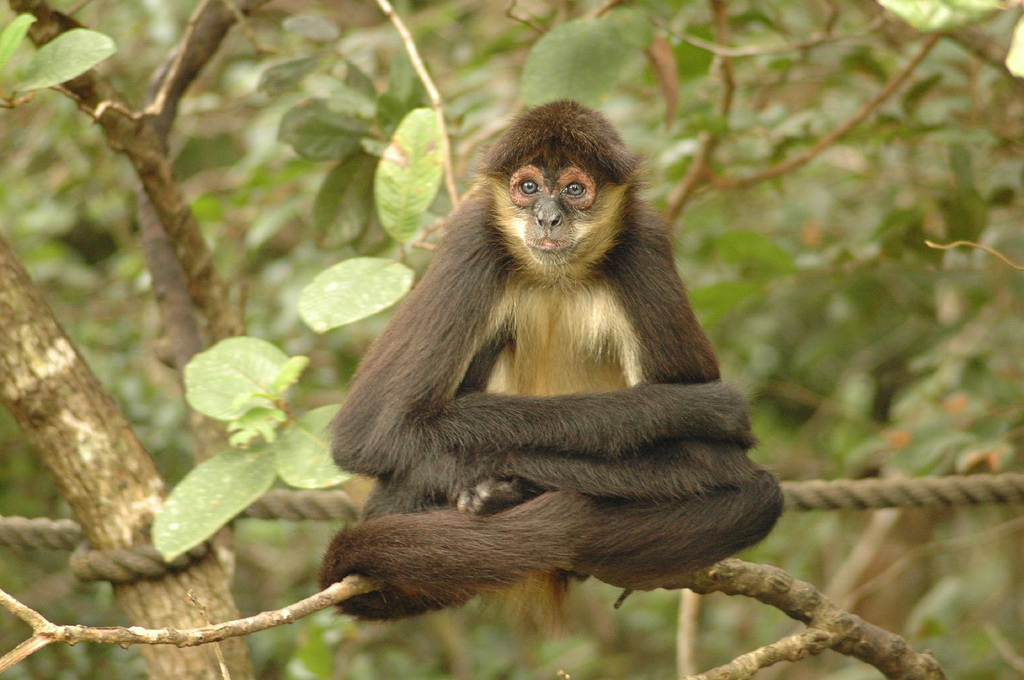 Geoffroy's Spider Monkey, also known as Black-handed Spider Monkey, at Belize Zoo, Belize.